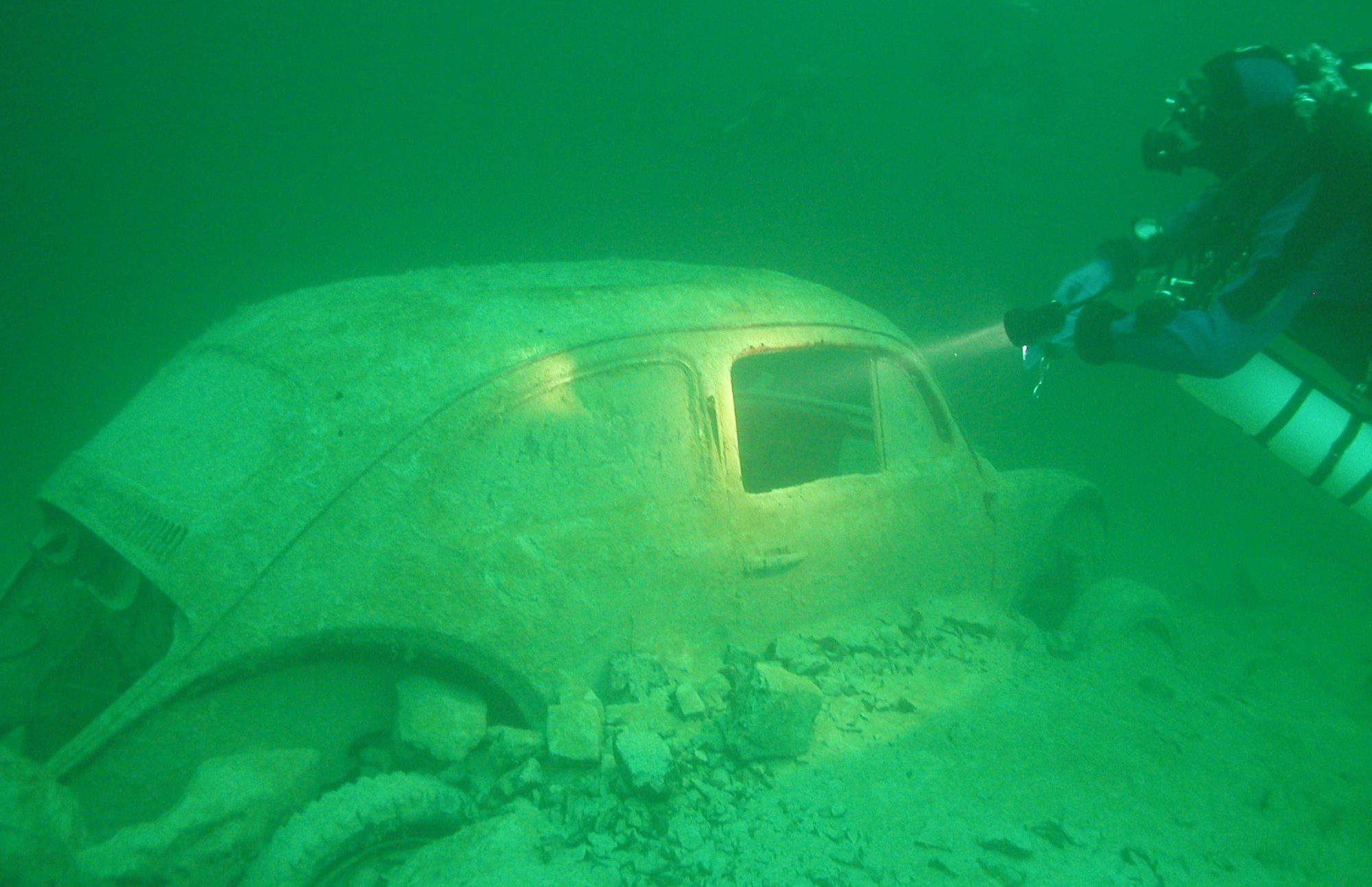 Underwater photography - old car wreck at the ground of the lake Walchensee